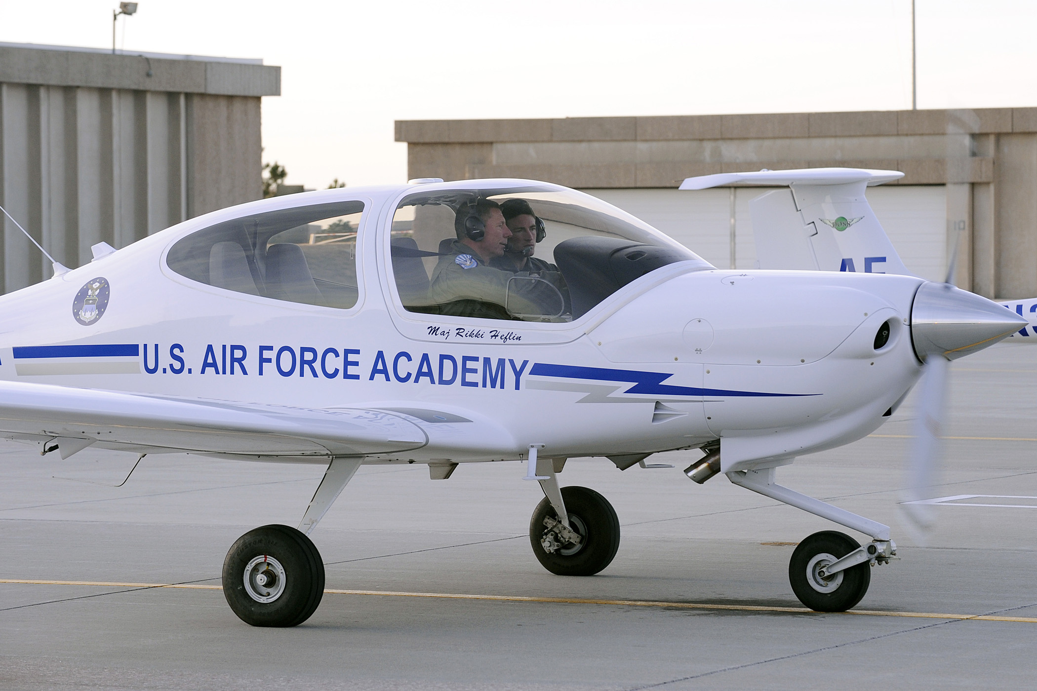 Lt. Gen. Mike Gould and Cadet 1st Class Luke Hyder prepare to taxi after performing pre-flight checks of the newest addition to the 557th Flying Training Squadron, a Diamond T-52A (military version of the DA40) on the airfield at the U.S. Air Force Academy, Colo, on April 15, 2010. General Gould is the U.S. Air Force Academy superintendent.